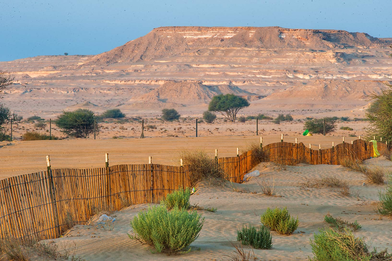 Nakhsh mountain as seen near Salwa Road in Khashem Al Nekhsh, Qatar.